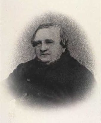 Peder Hansen (1798-1878), Danish farmer and politician, MP